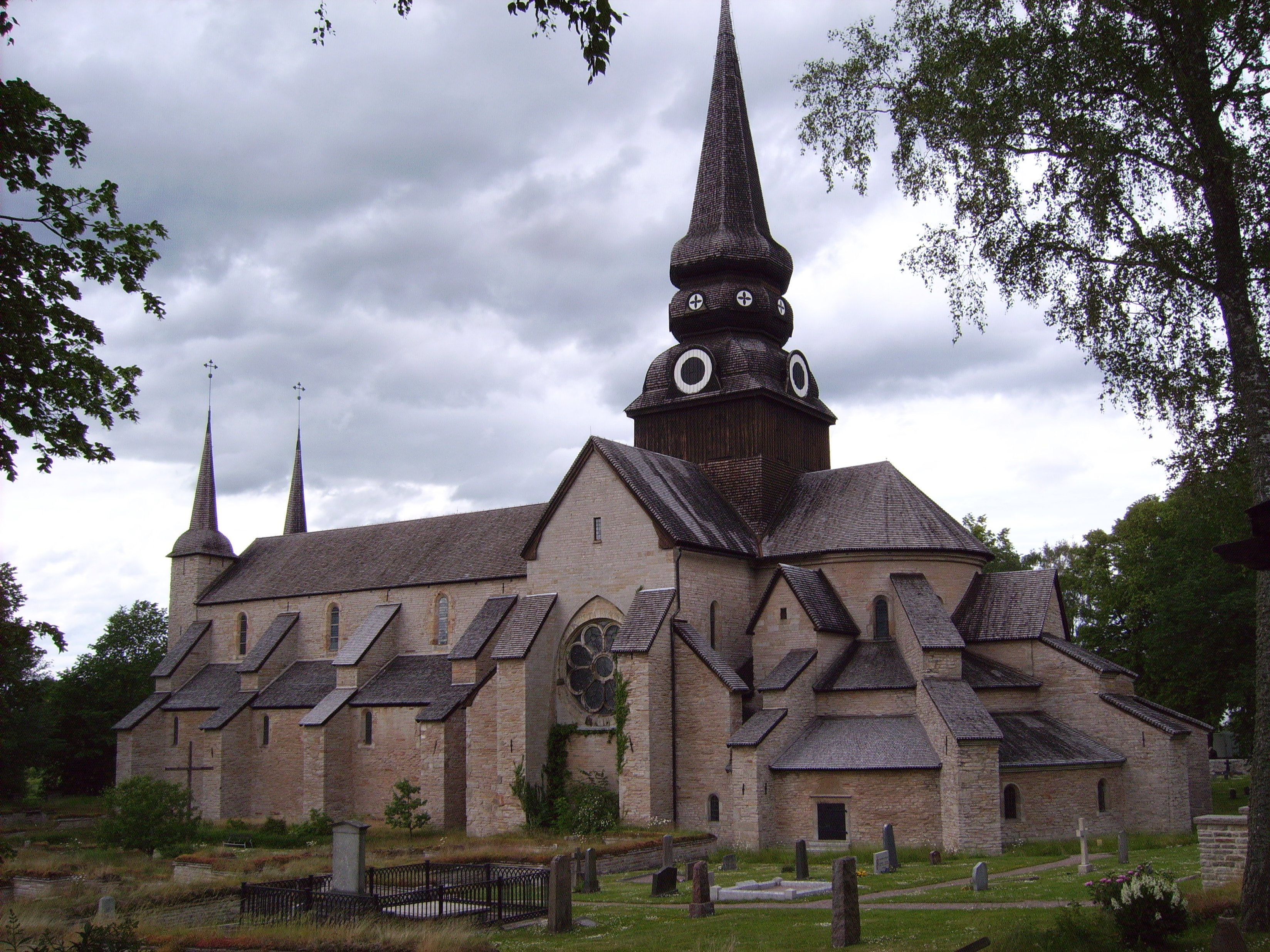 The monastic church Varnhem, convenient in the place Varnhem between the cities Skara and Skövde in the Swedish province Västergötland, is the grave church of the medieval king dynasty Eriks (Knut Eriksson and Erik Knutsson, Erik Eriksson) as well as the master father of the Bjälbo dynasty Birger Jarl and realm chancellor Magnus Gabriel de la Gardie. The monastery Varnhem was created 1150 of Cistercians as a daughter of monastery Alvastra, in the Swedish province Östergötland. The monastic church, originally in Roman style built, was heavily damaged in a fire 1234. It became in early gothic style after the model of the churches of Clairvaux (France) and Marienfeld (Germany) rebuilt. In the centre of the 17th century Swedish realm chancellor Magnus visited de la Gardie, whose county Läckö laid not far from Varnhem, the church. It recognized the value of the church as former royal grave church and let it recondition, since it should accommodate its own burial place (and those family). Between 1918 and 1923 the church was again reconditioned. At the same time the foundation walls of the monastery buildings were excavated. These excavations were taken up to the 1970 years again and are today accessible to the public. Further pieces of find can be visited in the monastery museum beside the church.